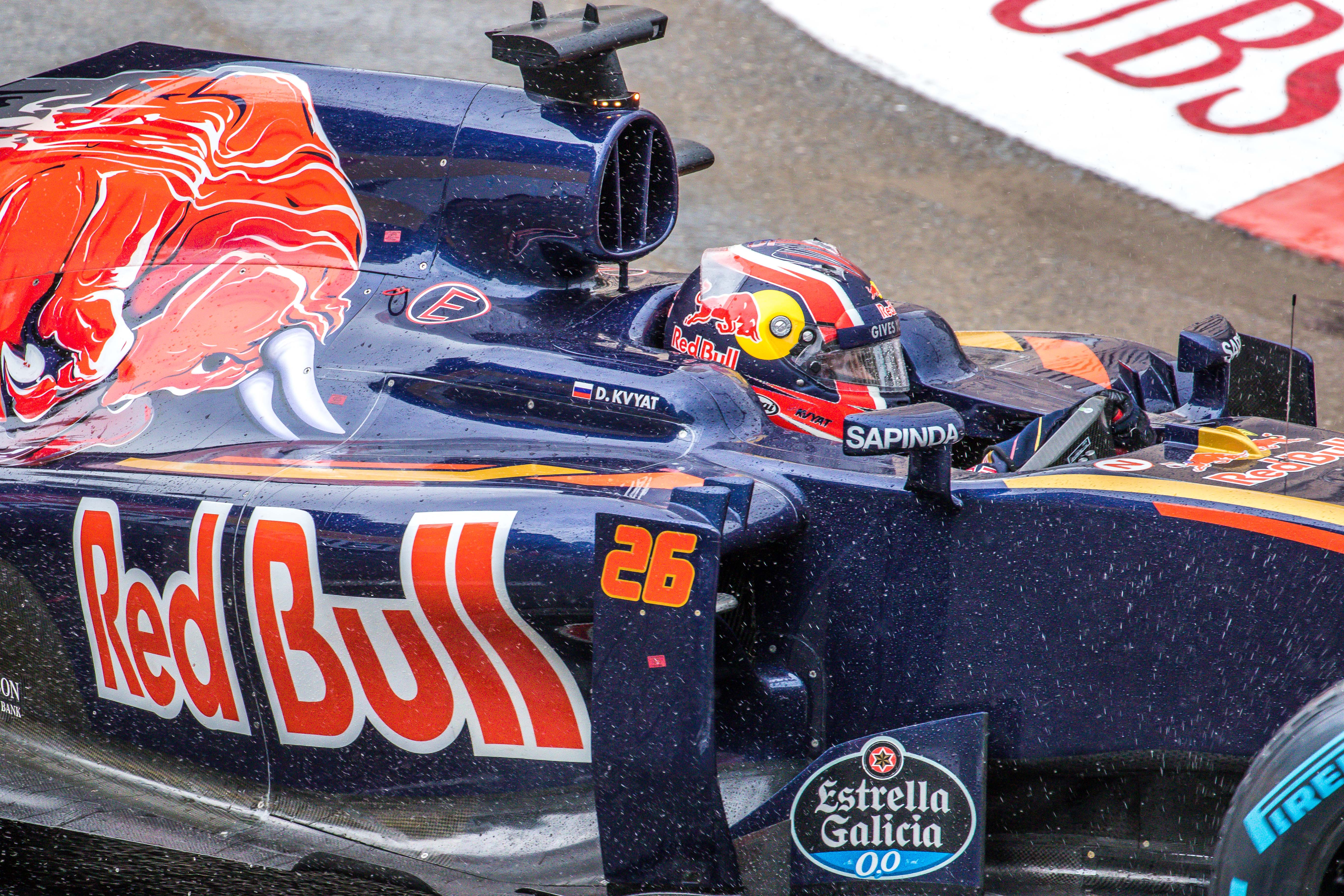 Daniil Kvyat at the 2016 Monaco Grand Prix